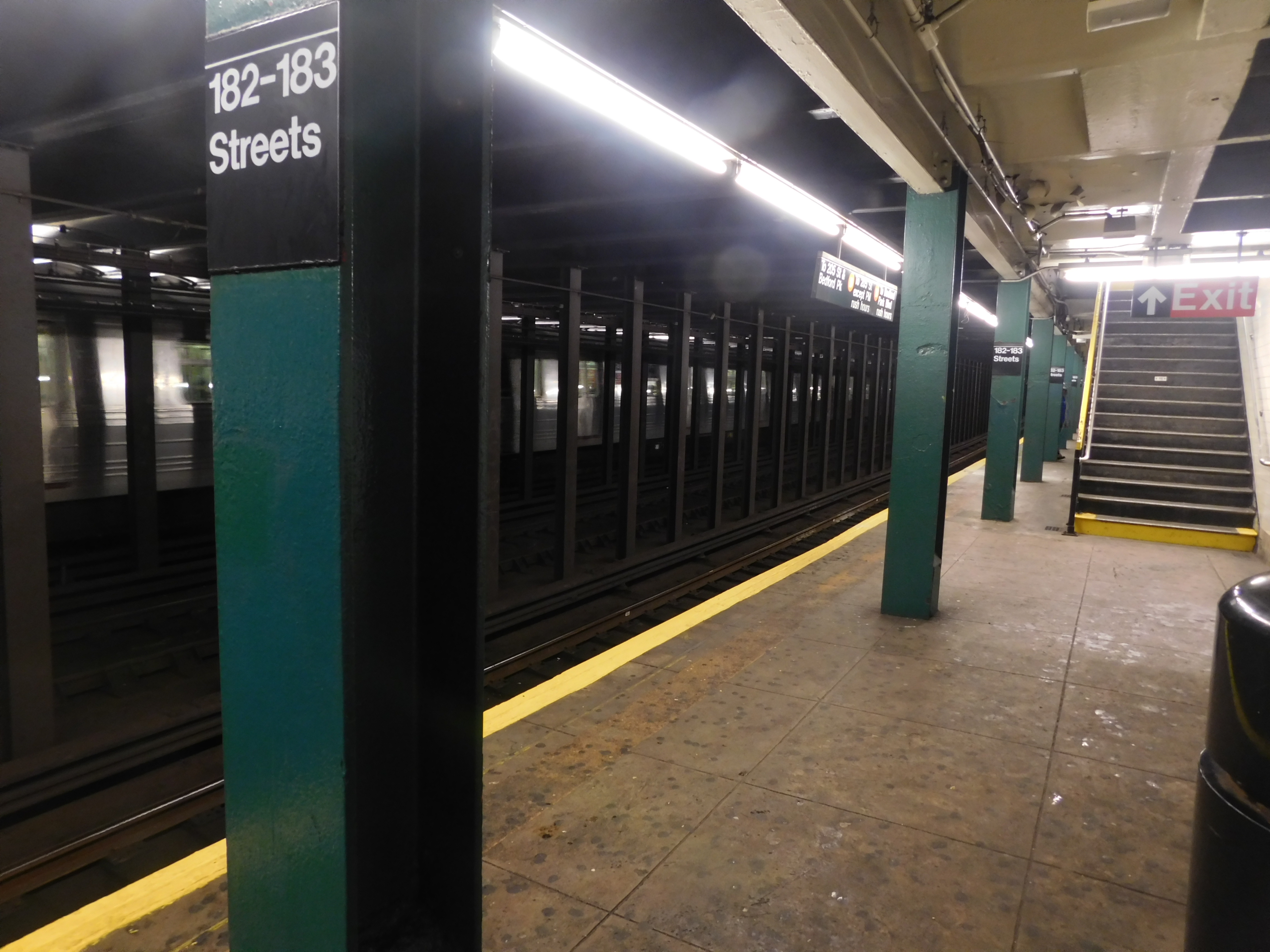 Prospect Hills Estate, Bronx, New Yor